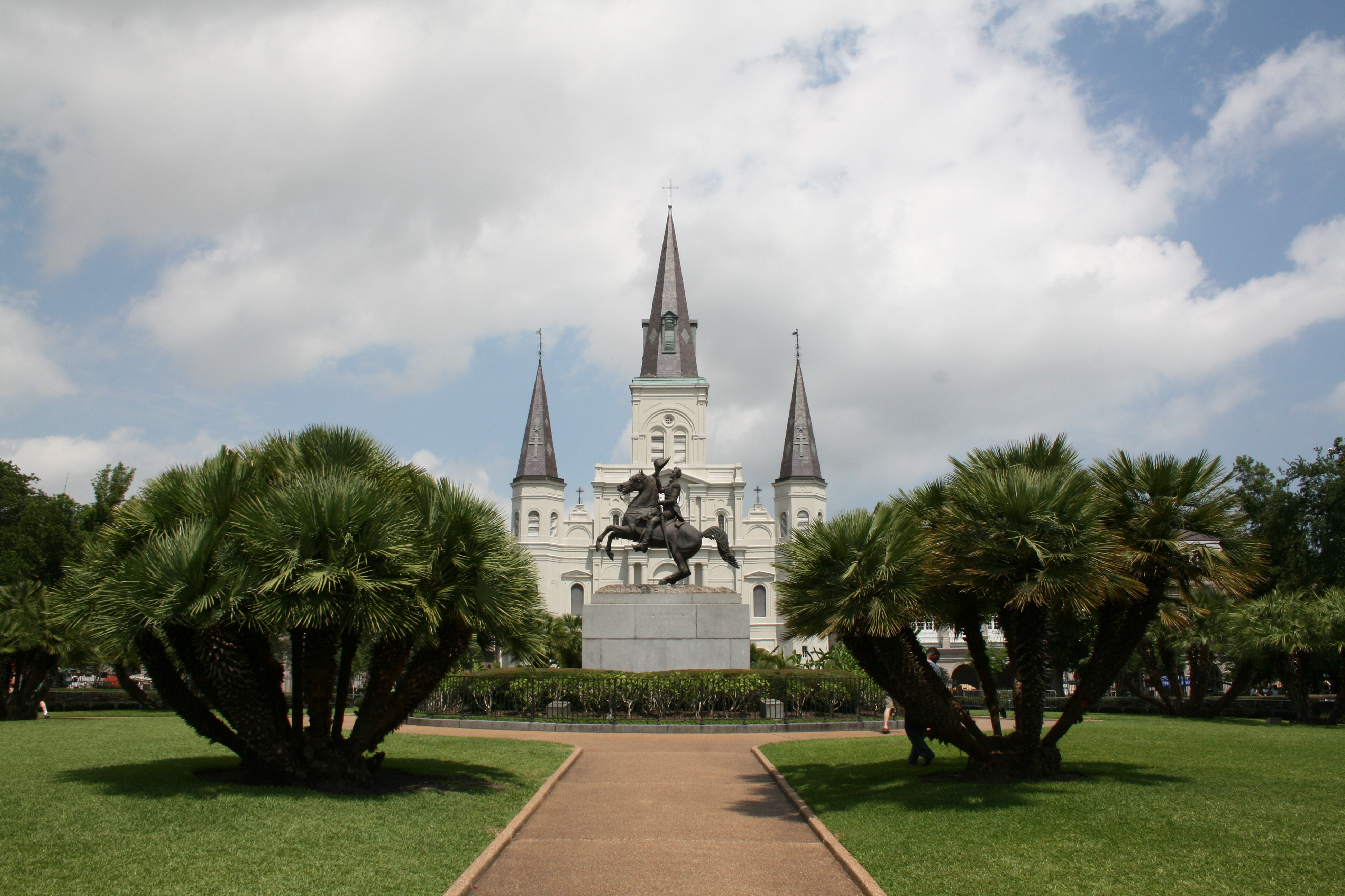 Andrew Jackson monument, New Orleans, USA